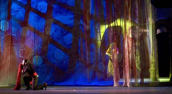 Adrian holds on desperately to the manton which belongs to Aydanamara.